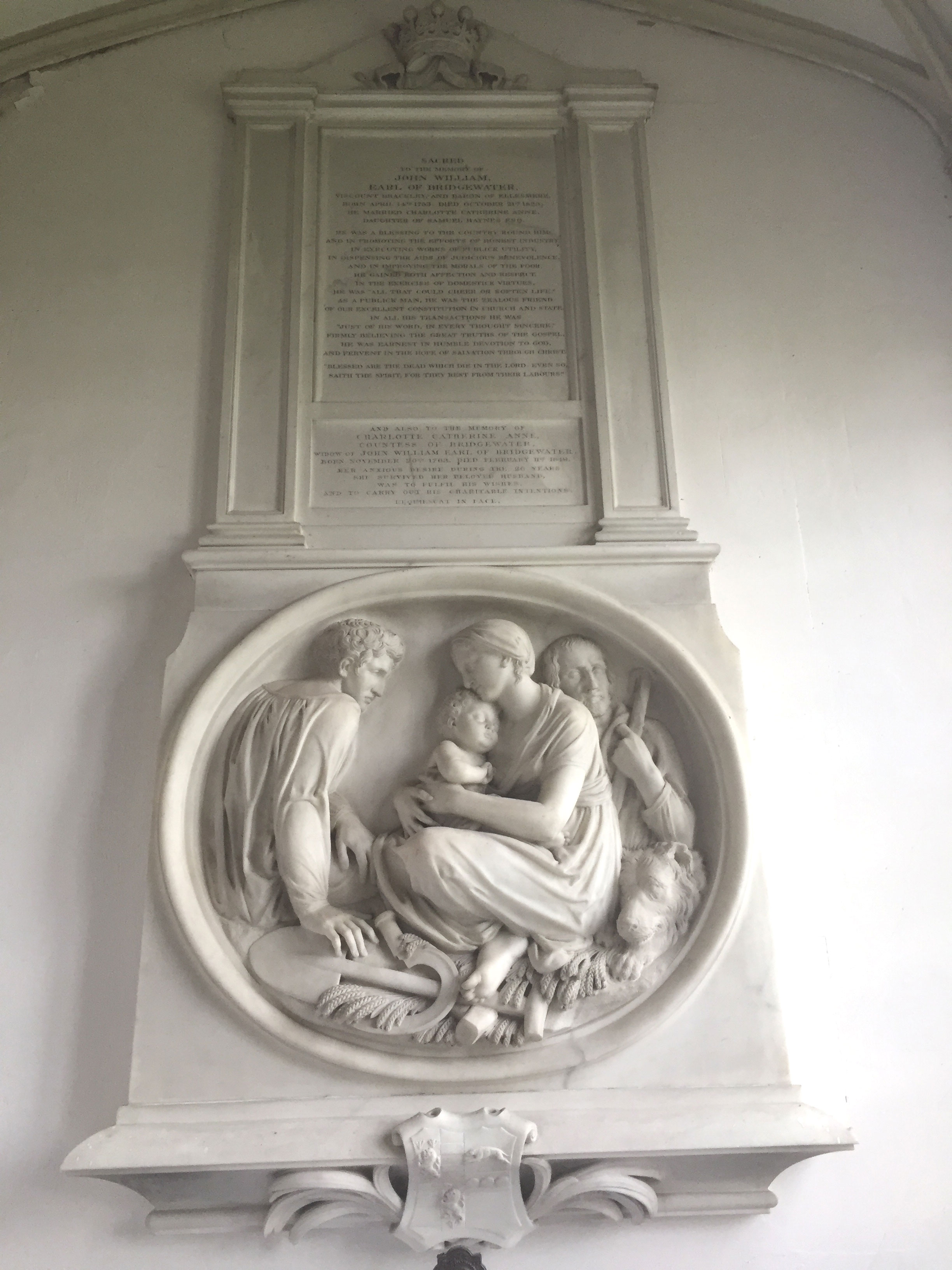 Memorial in Little Gaddesden church to John William Egerton, 7th Earl of Bridgewater (1753—1823) and Charlotte Catherine Anne, Countess of Bridgewater (1763—1849)